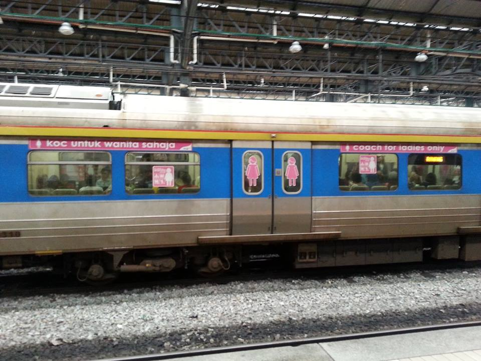 A photo taken of a specific train's coach showing a coach for women only.